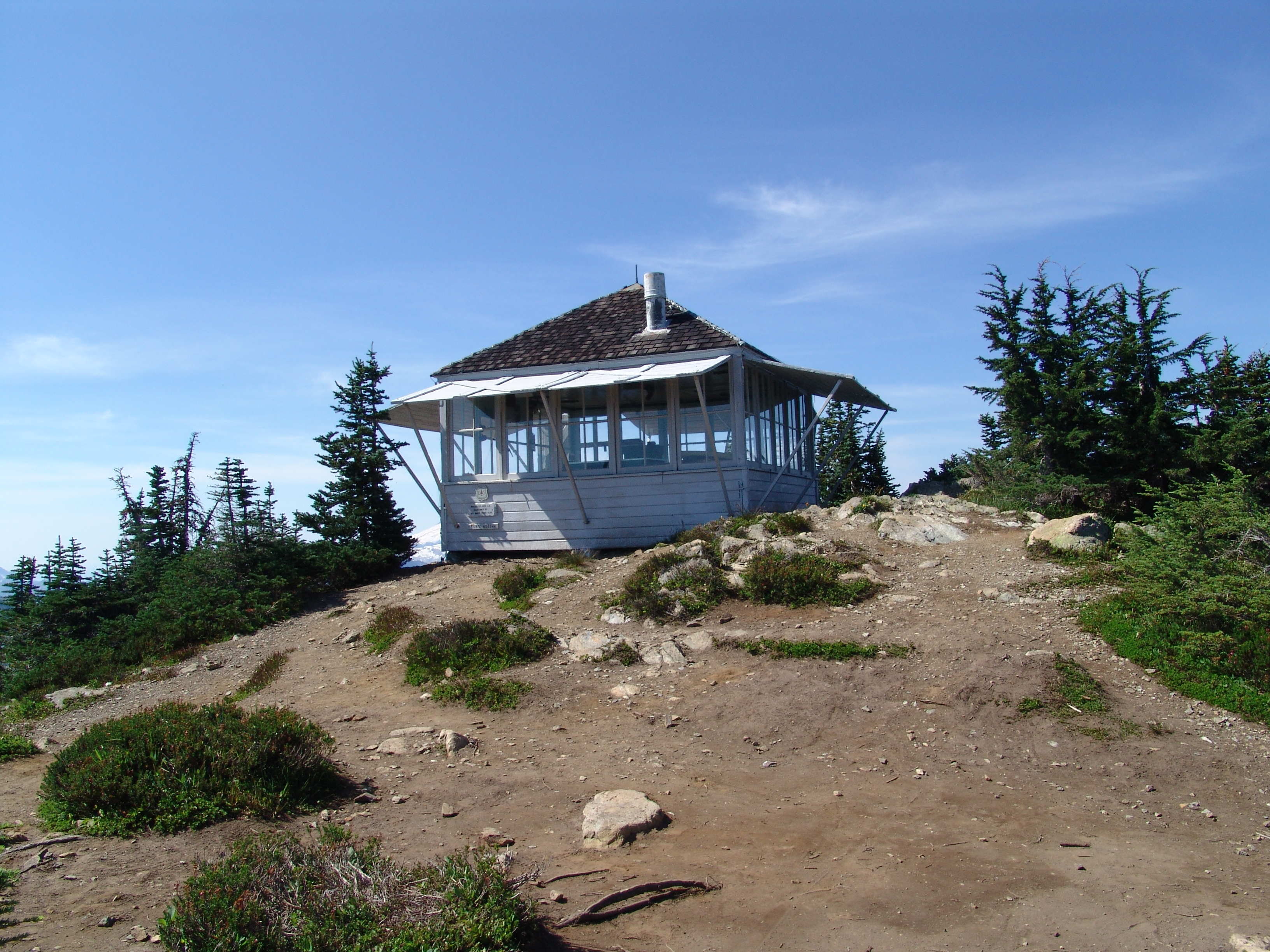 Winchester Mountain Lookout